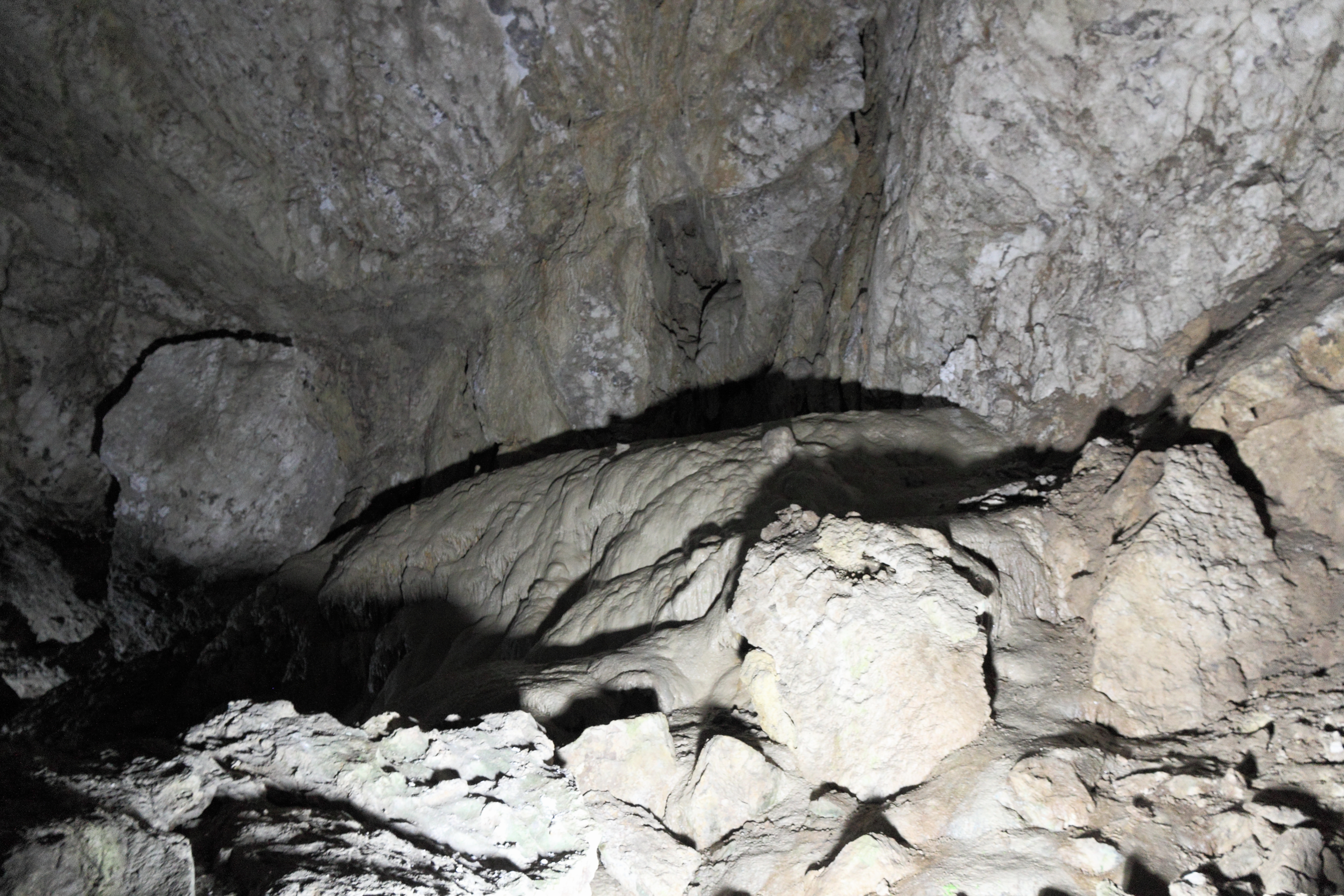 New Athos Cave. New Athos, Gudauta District, Abkhazia.